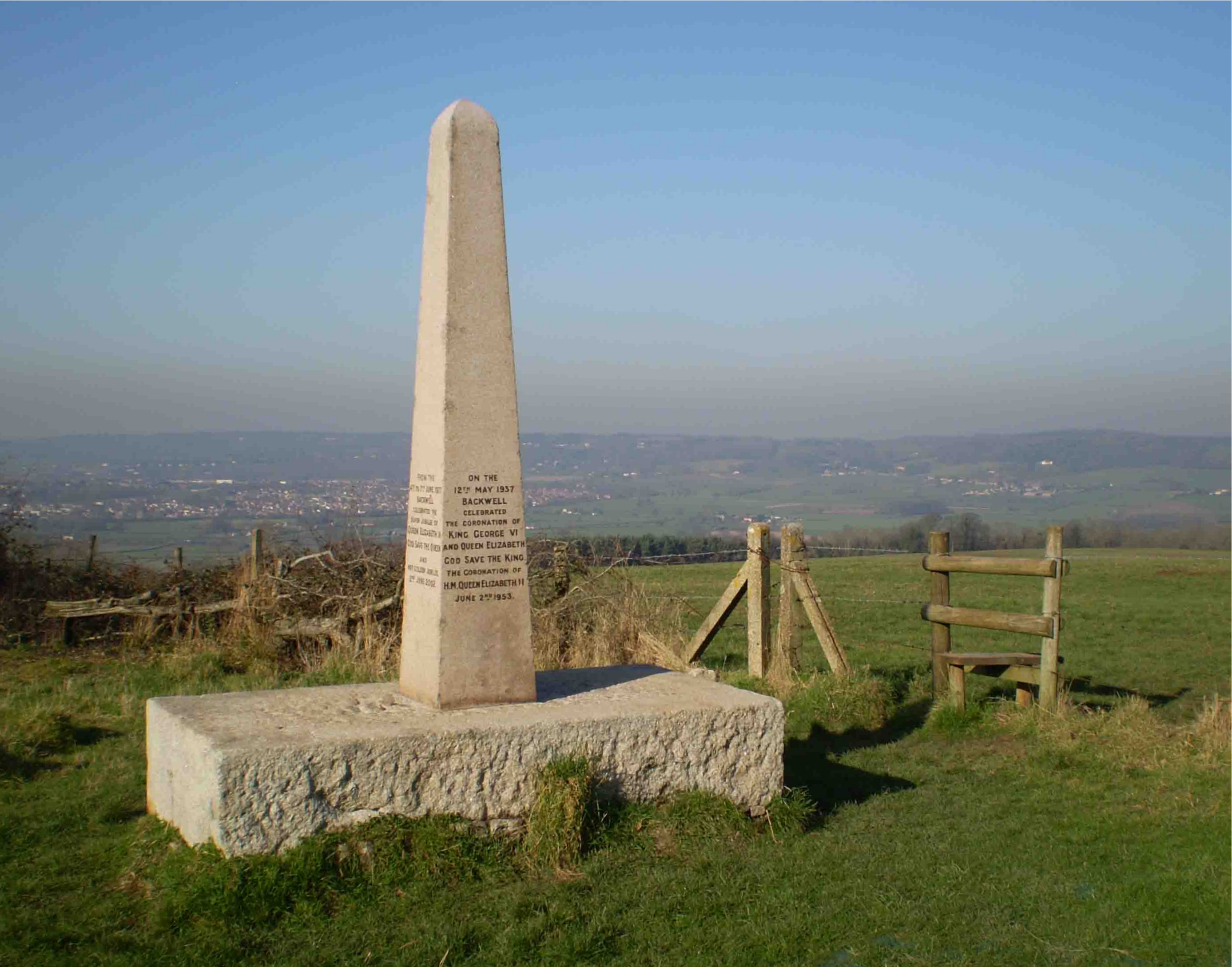 The jubilee stone is iconic for the Woodland nature reserve owned by the Backwell Environment Trust